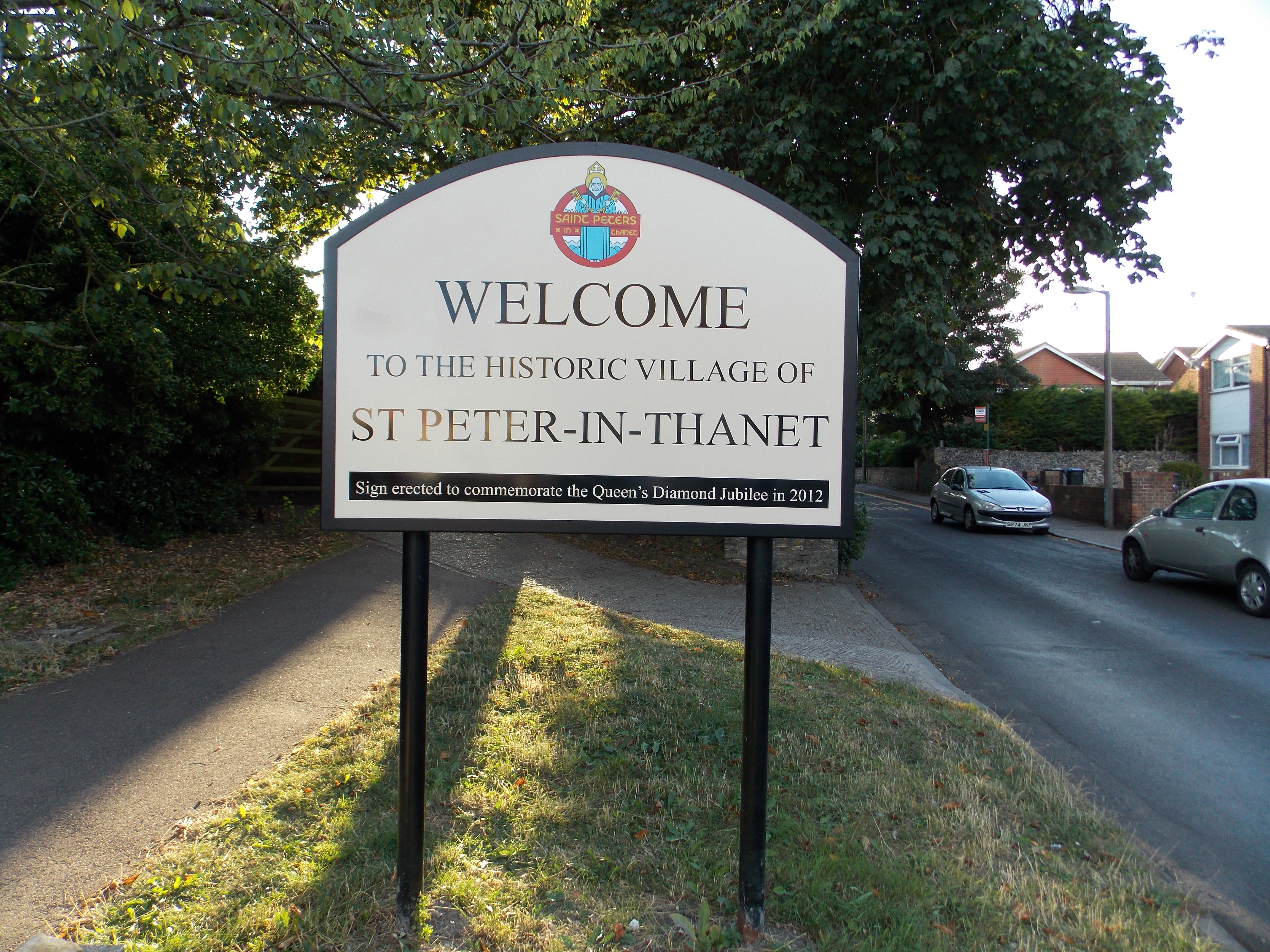 Road sign at the boundary of St Peter-in-Thanet with Broadstairs